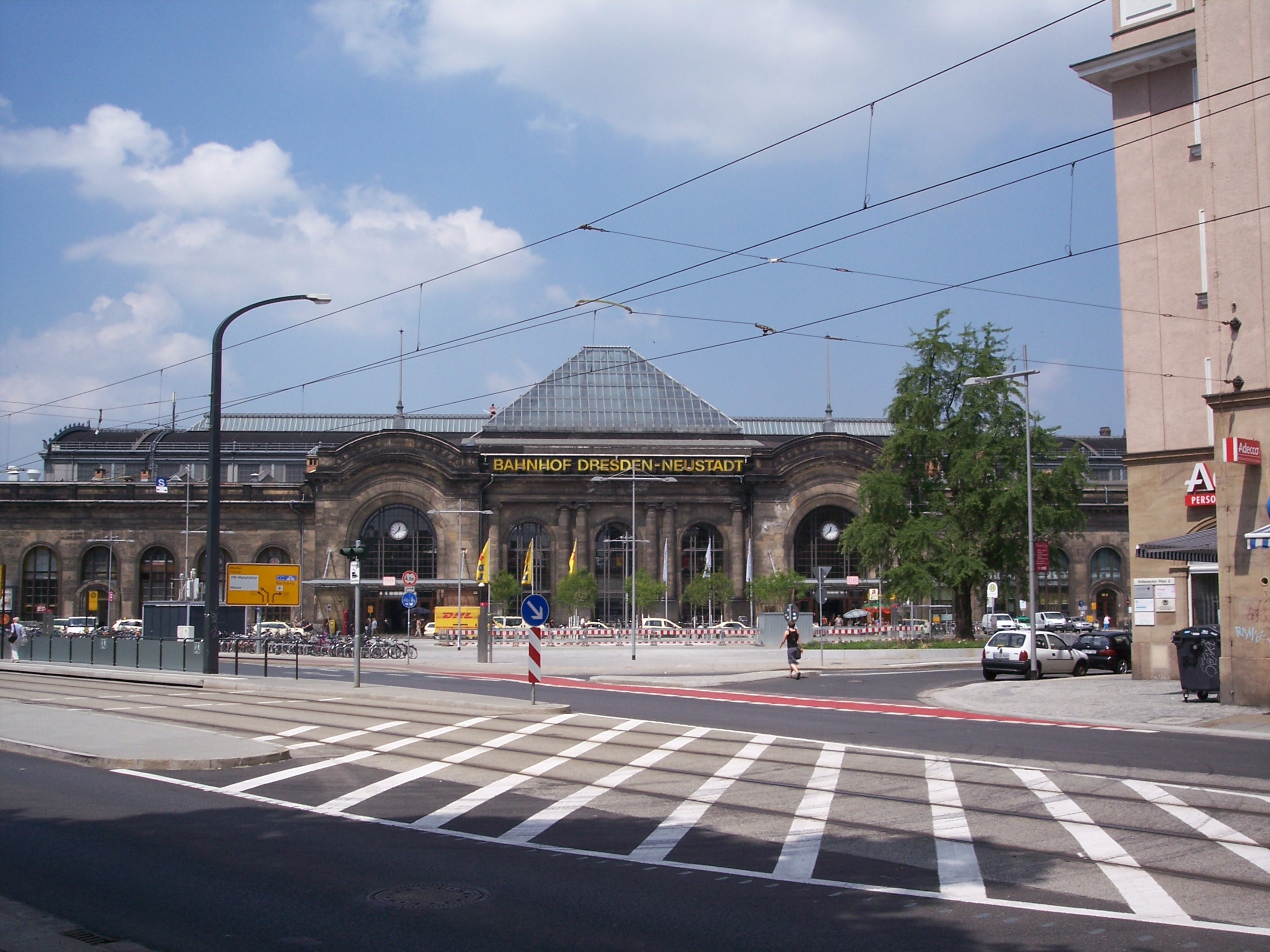 Dresden-Neustadt railway station as seen from "Schlesischer Platz" square